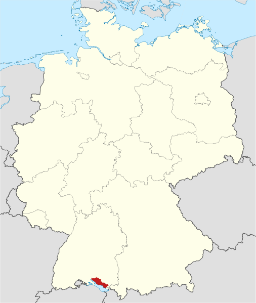 Locator map of Bodenseekreis in Baden-Württemberg, Germany.